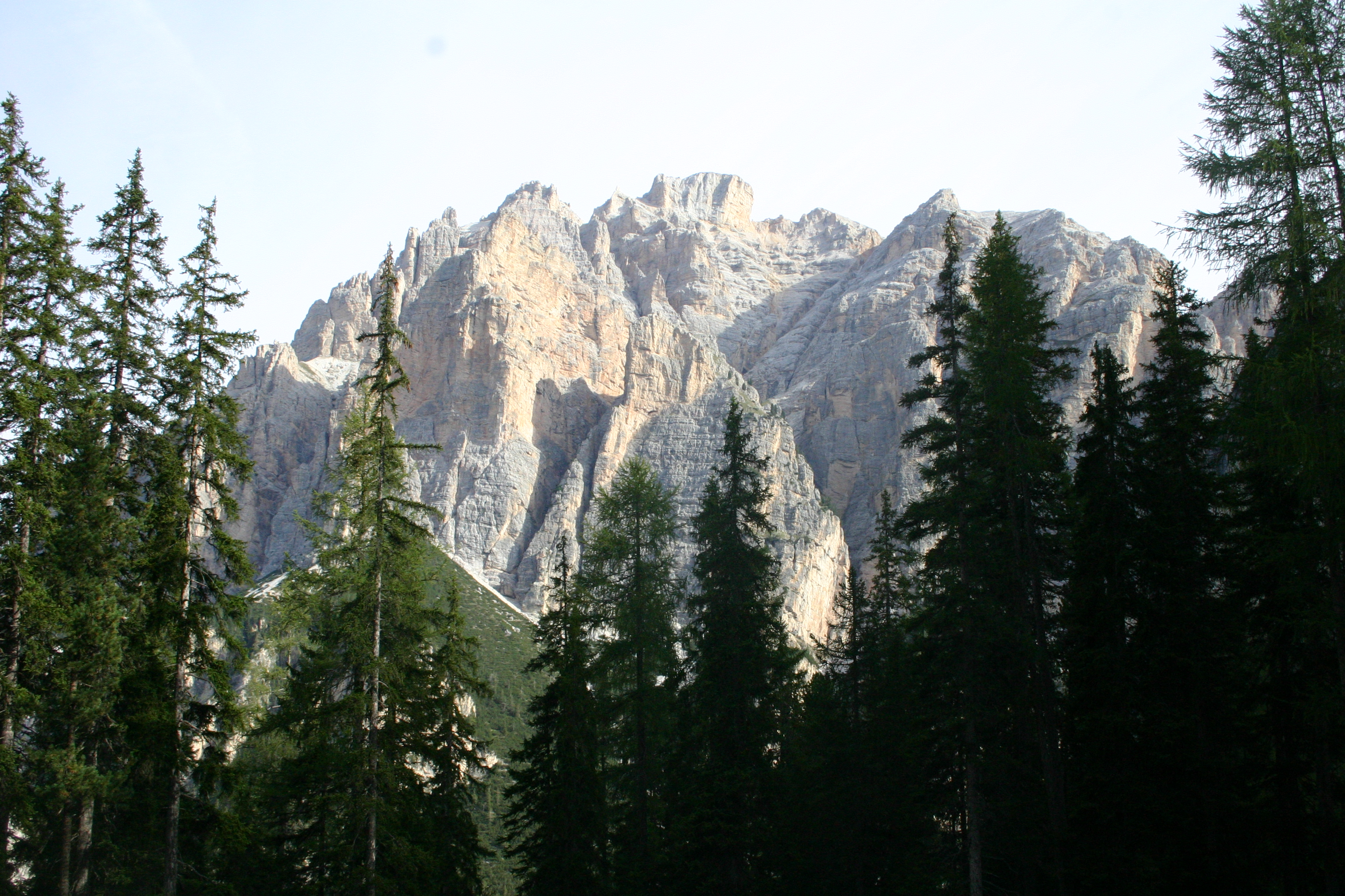 Cunturines-Spitze (Cunturines peak) in the Dolomites, Italy, seen from south